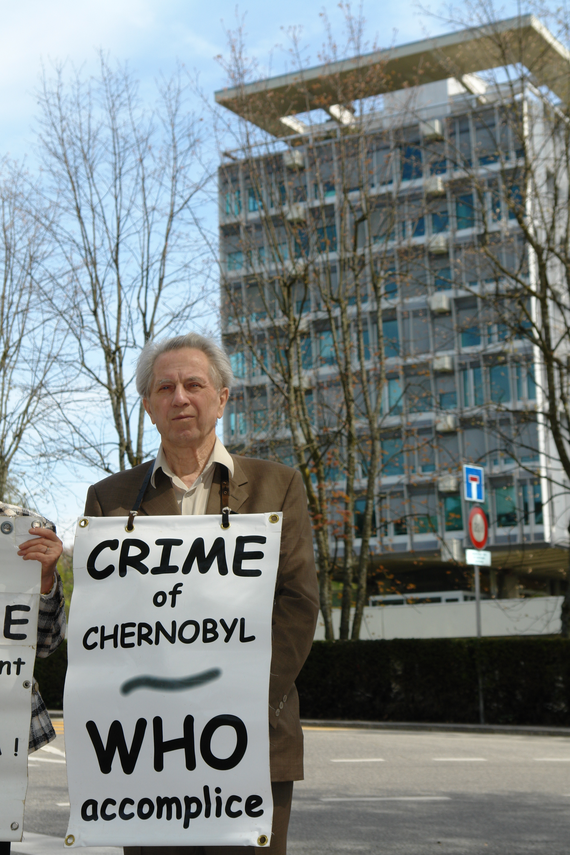 Vassili Nesterenko in front of the World Health Organisation, Geneva.